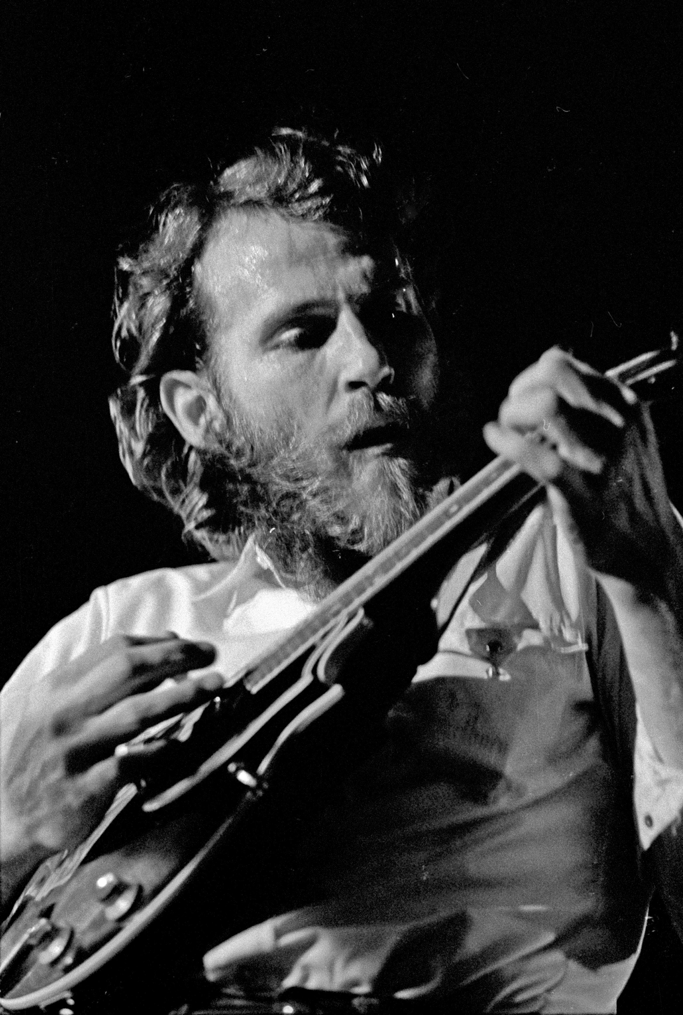 Levon Helm performing with The Band. Hamburg, May 1971.